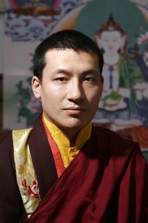 Thaye Dorje, one of the two claimants of the title 17th Karmapa see Karmapa controversy. Picture taken in London.